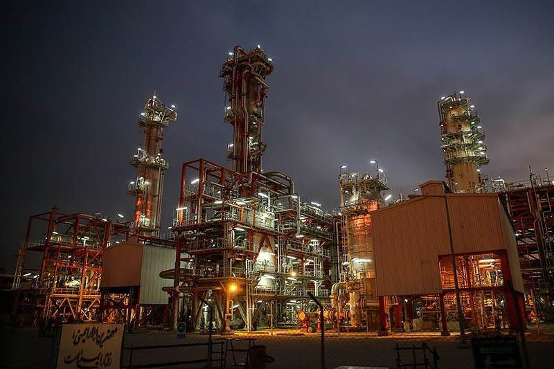 South Pars Onshore Facilities near Asaluyeh City.